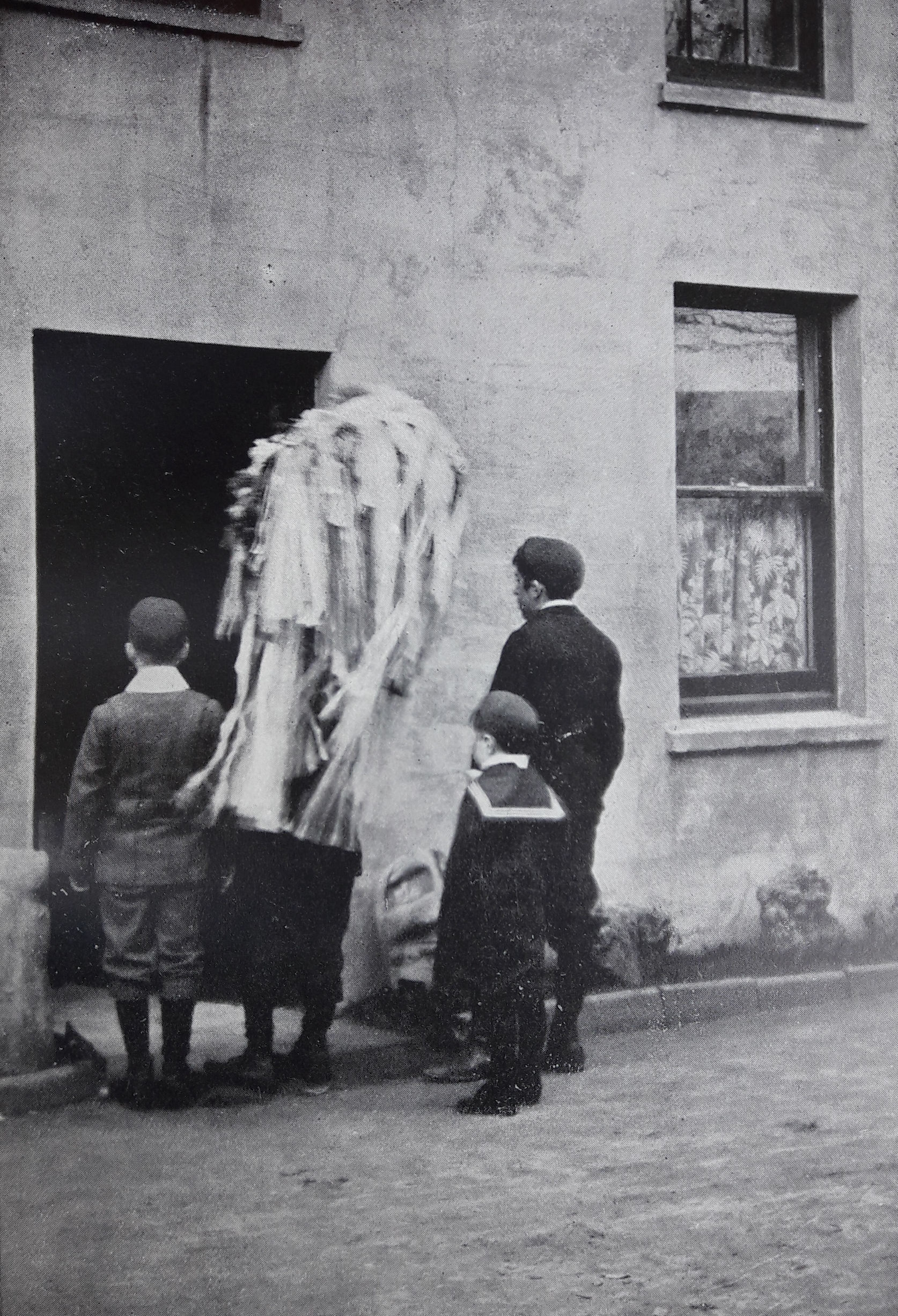 Hunt the Wren in Douglas, Isle of Man, in 1904. Photographed by E. Broadhead and first published in P. G. Ralfe's Birds of the Isle of Man (1905) Gaelg: Shelg yn Drean, Doolish, 1904